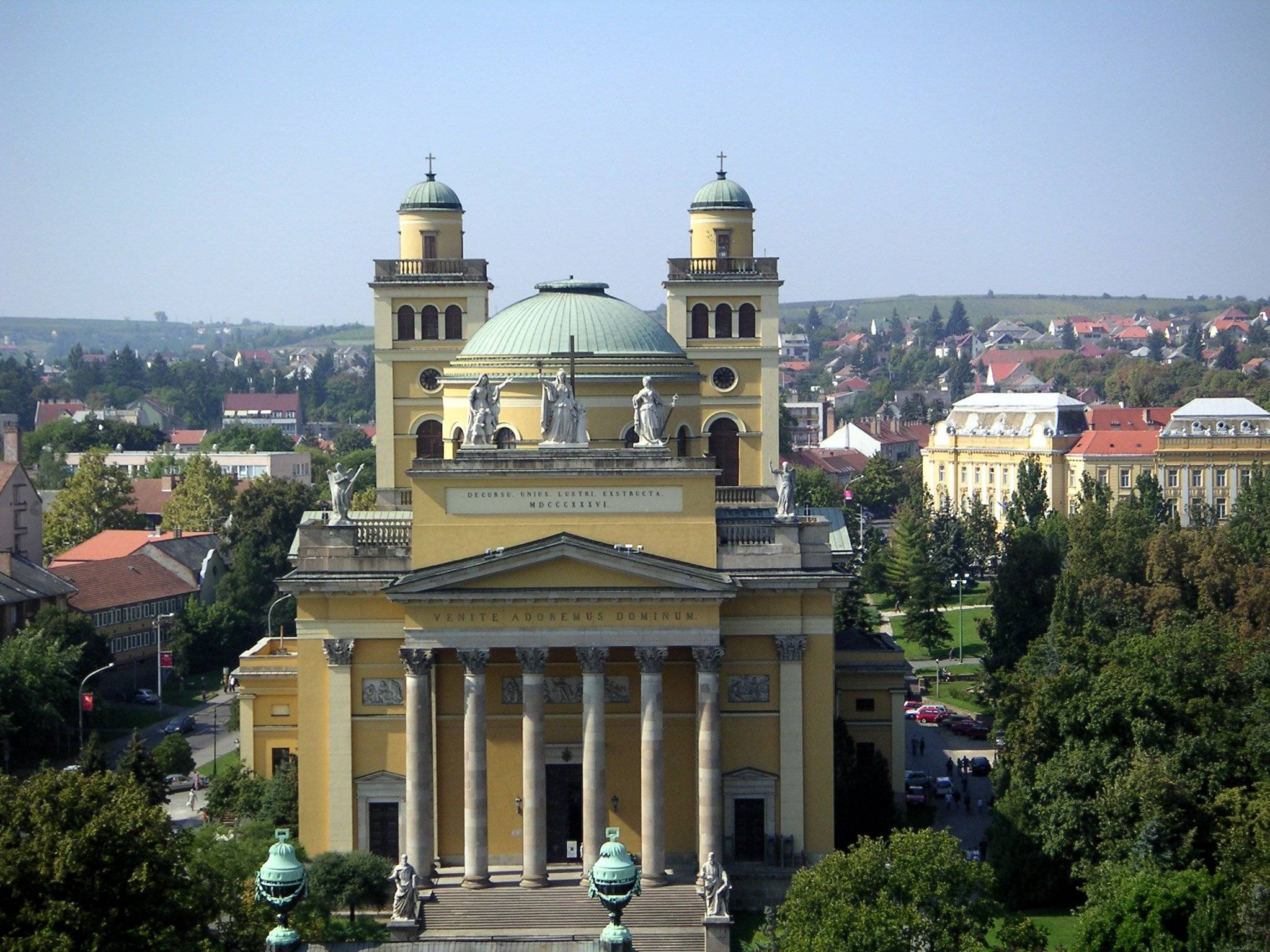 The Basilica of Eger, Hungary.